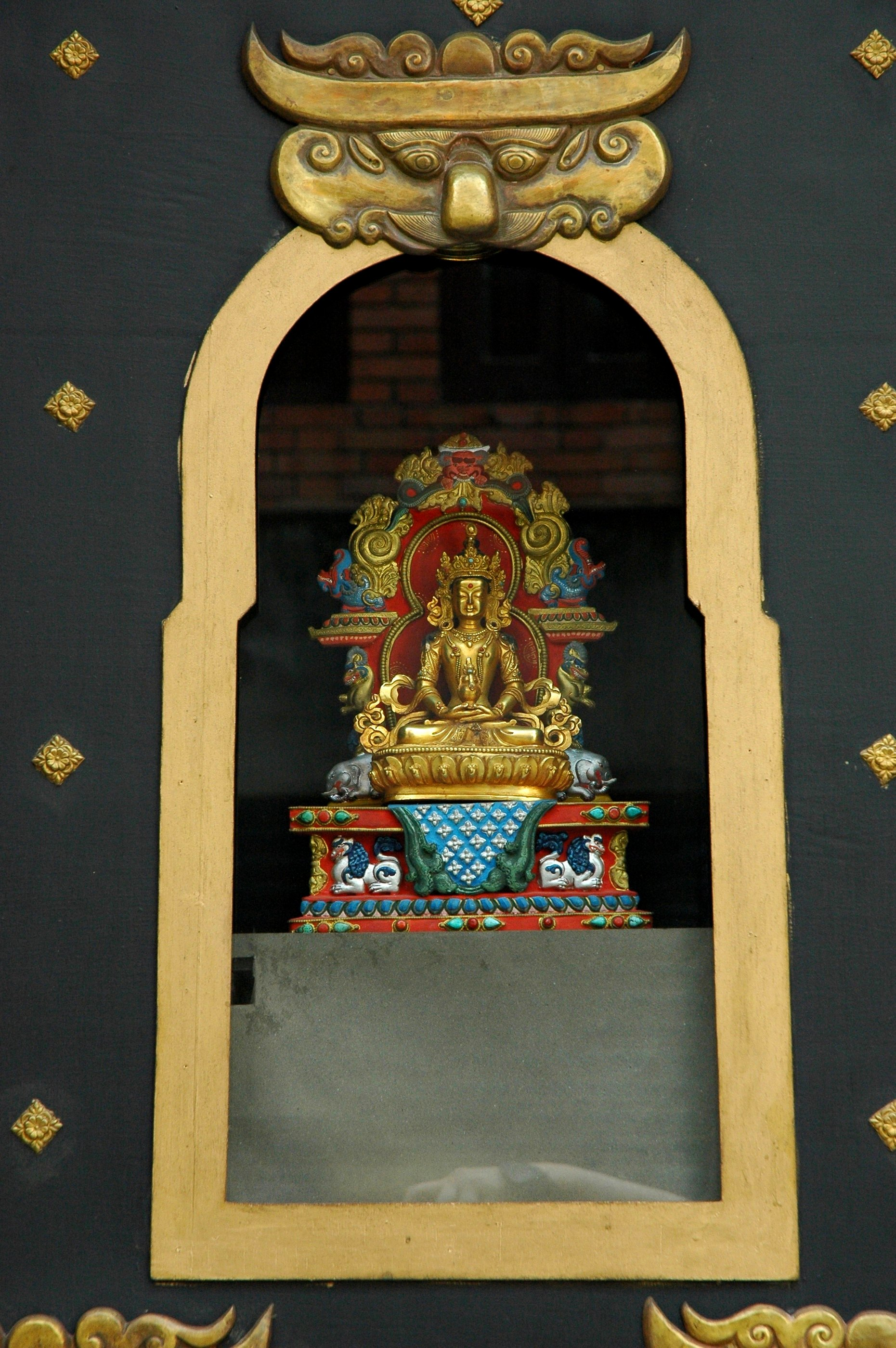 Zephr shows off a Buddha in the window of a cloisonne art gallery of religious images.